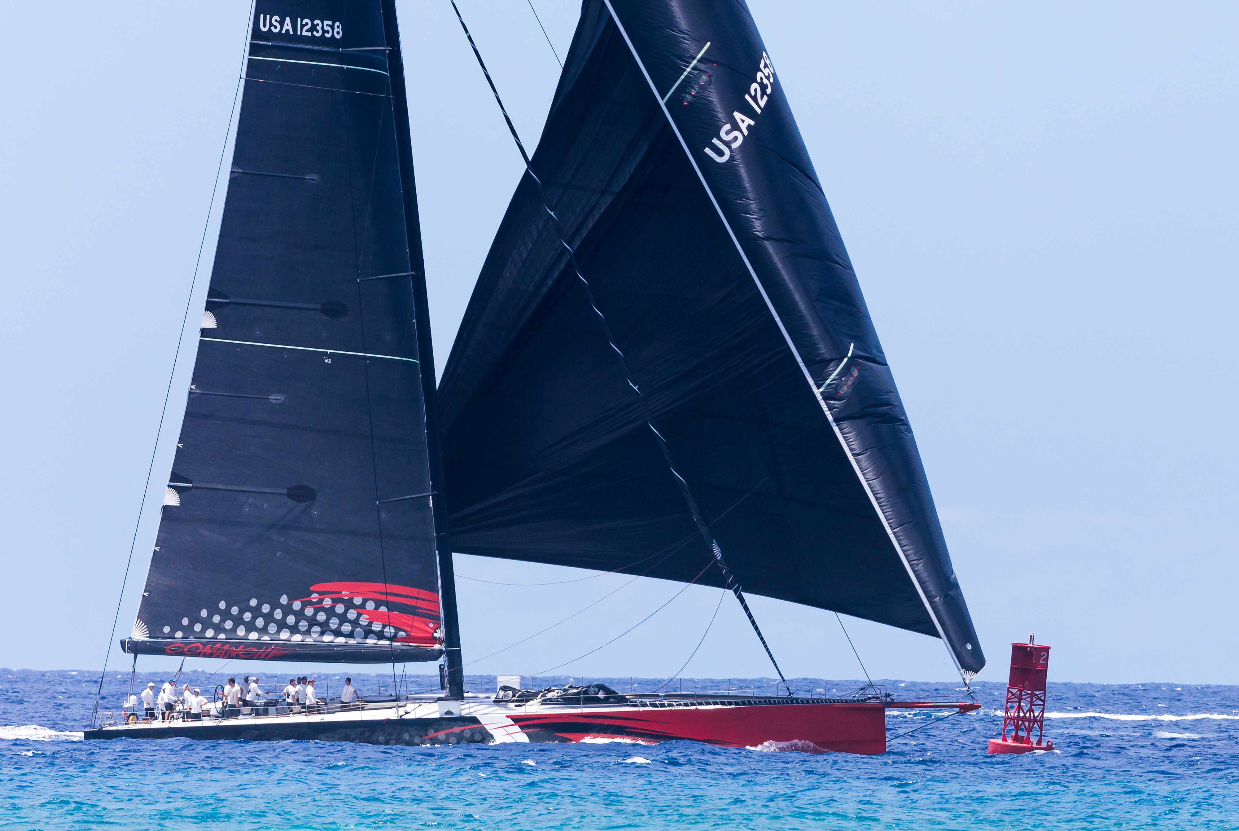 Comanche finishing the 2017 TRANSPAC setting a new record for monohulls